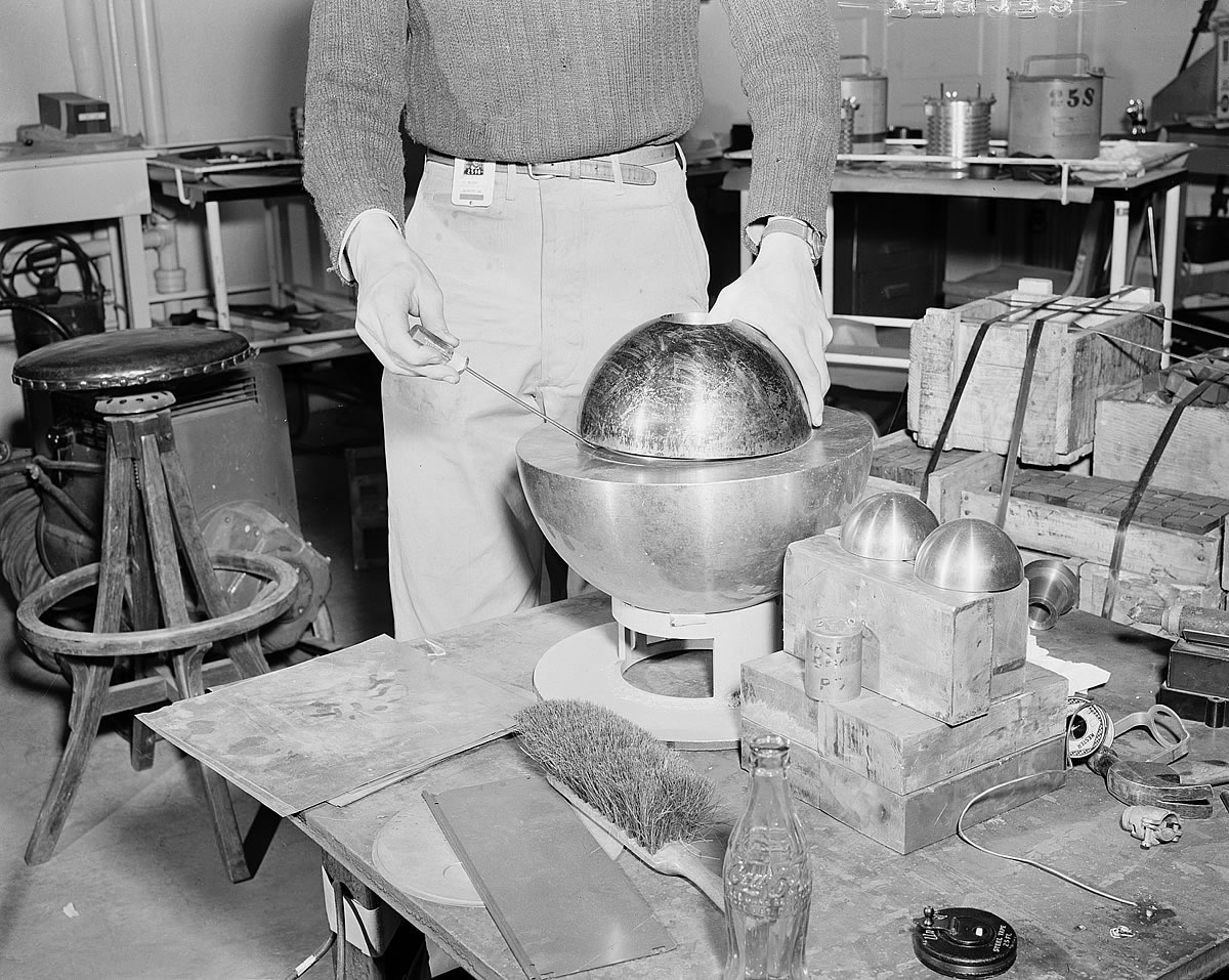 This image was copied from en. The original description was: Recreation (simulation) of the Slotin incident of "tickling the dragon's tail" which shows the configuration of beryllium reflector shells prior to the criticality. Updated caption: Configuration of beryllium reflector shells prior to the accident 21 May 1946.